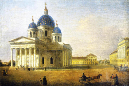 Photolitography of Trinity-Izmailovsky Cathedral